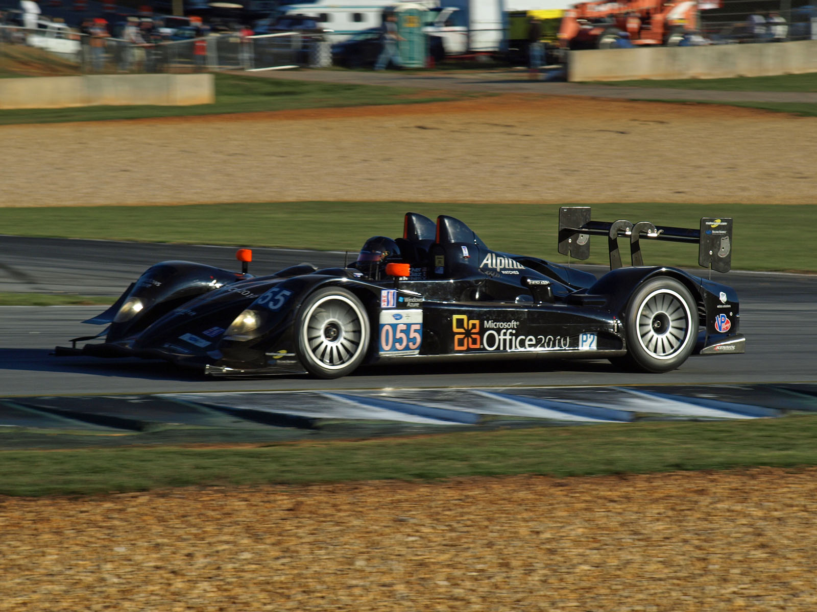 Scott Tucker driving the Level 5 Motorsports HPD ARX-01g in the 2011 Petit Le Mans at Road Atlanta.